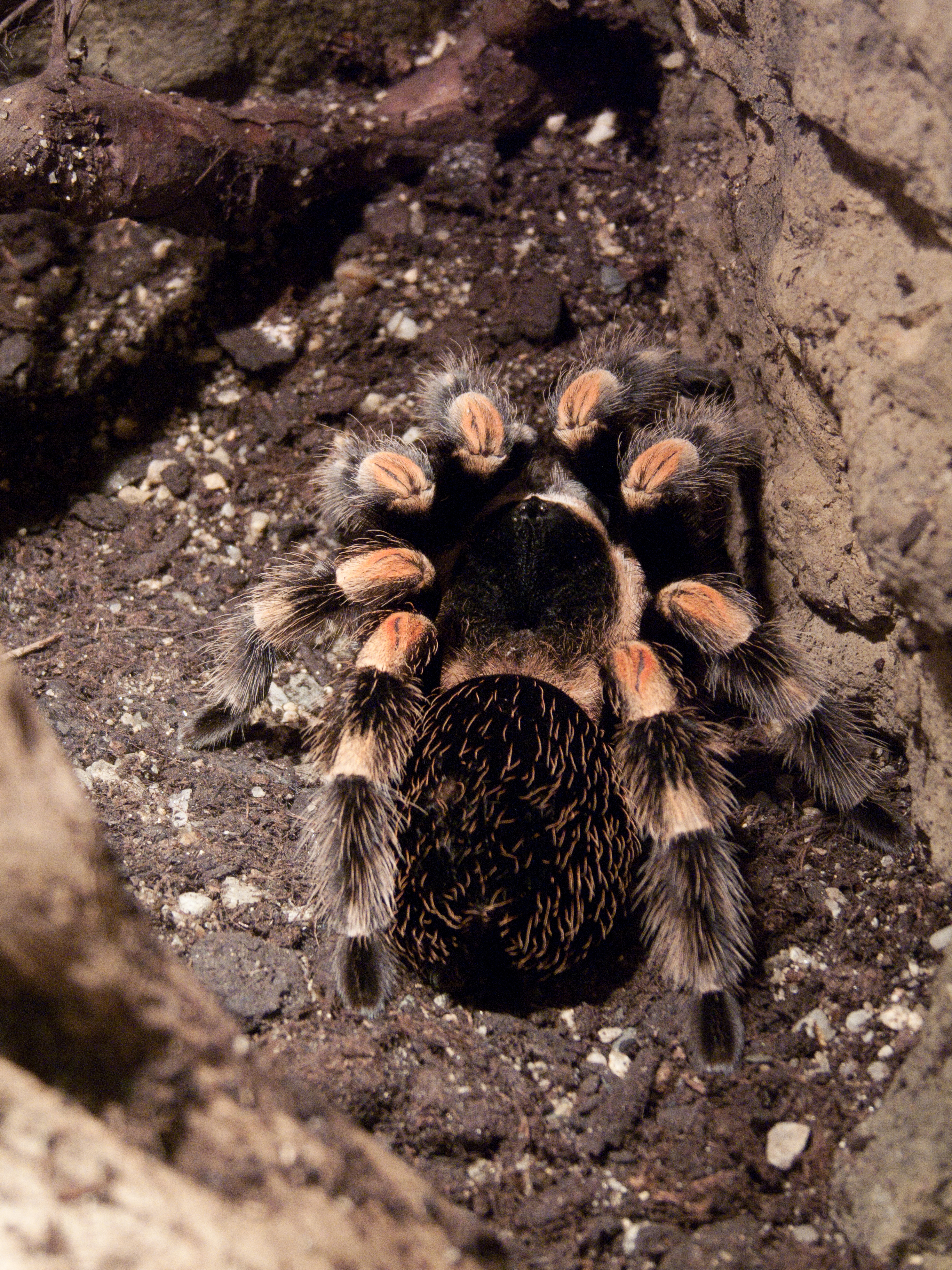 Mexican redknee tarantula (Brachypelma Smithi) in the Rajské ostrovy (Paradise Islands) building of the zoo in Děčín, Czech Republic